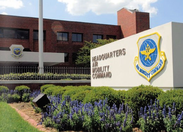 Photo of Air Mobility Command HQ, Scott AFB, Illinois